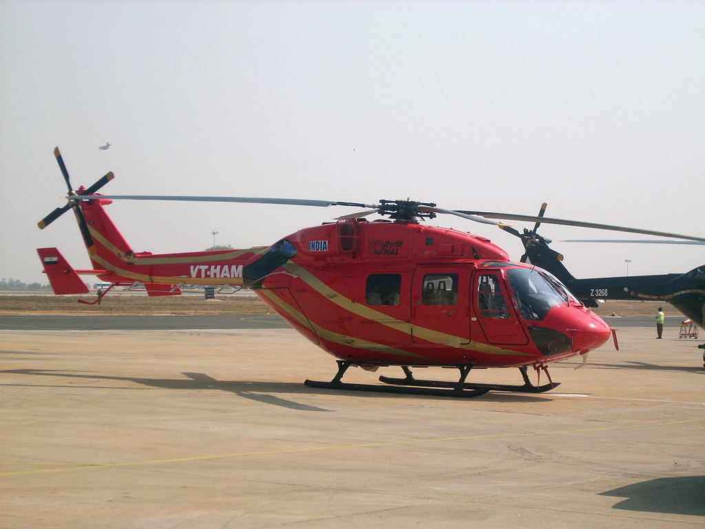 HAL Dhruv ambulance version.